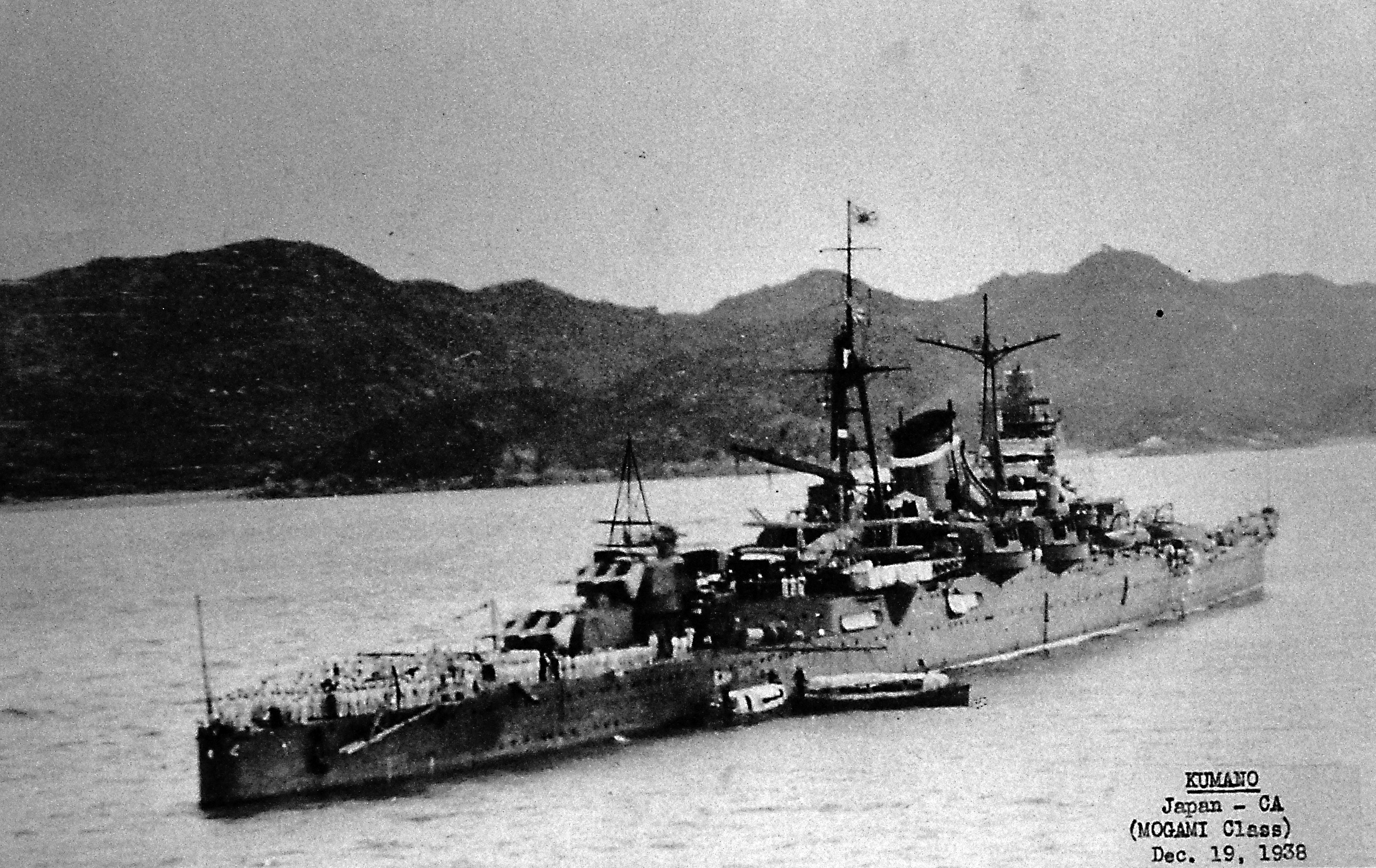 Japanese cruiser Kumano, Mogami class, December 19, 1938. Kumano was sunk by aircraft from USS Ticonderoga (CV 14) on November 25, 1944, while undergoing repairs in Santa Cruz on Luzon. Halftone copy from the files of the Department of Naval Intelligence, June 1943.